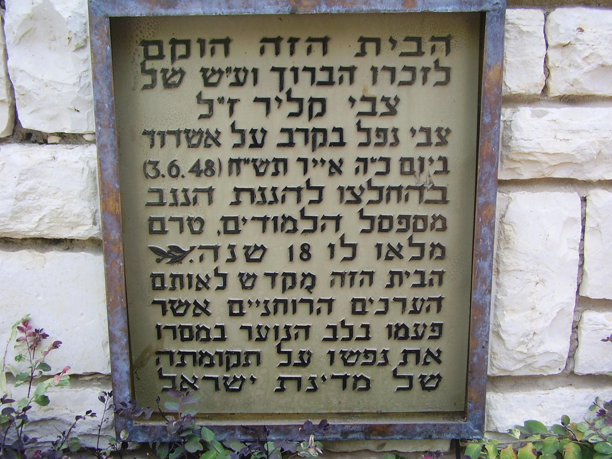 memorial plate to zvi klir in ramat gan, israel